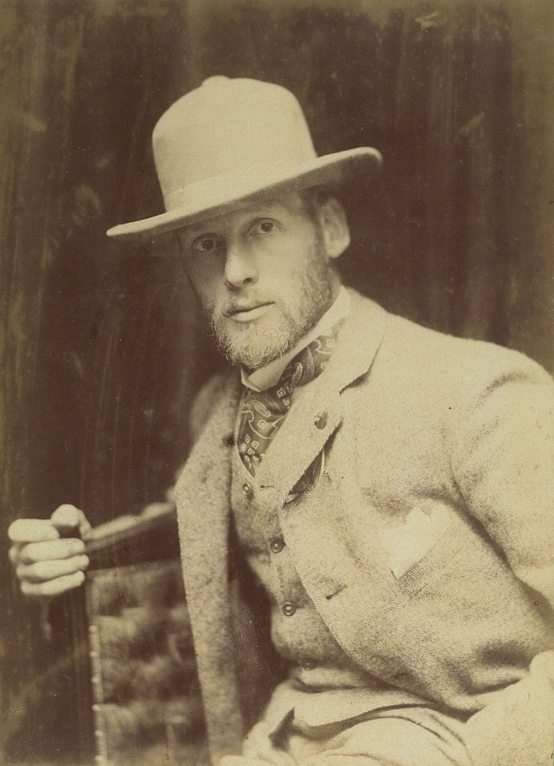 Format: Photograph Notes: Find more detailed information about this photograph: .au/item/itemDetailPaged.aspx?itemID=897169 From the collection of the State Library of New South Wales From the collection of the State Library of New South Wales